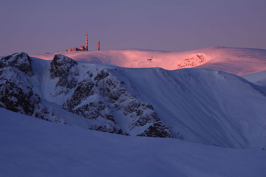 Botev Peak from Tuzha hut area